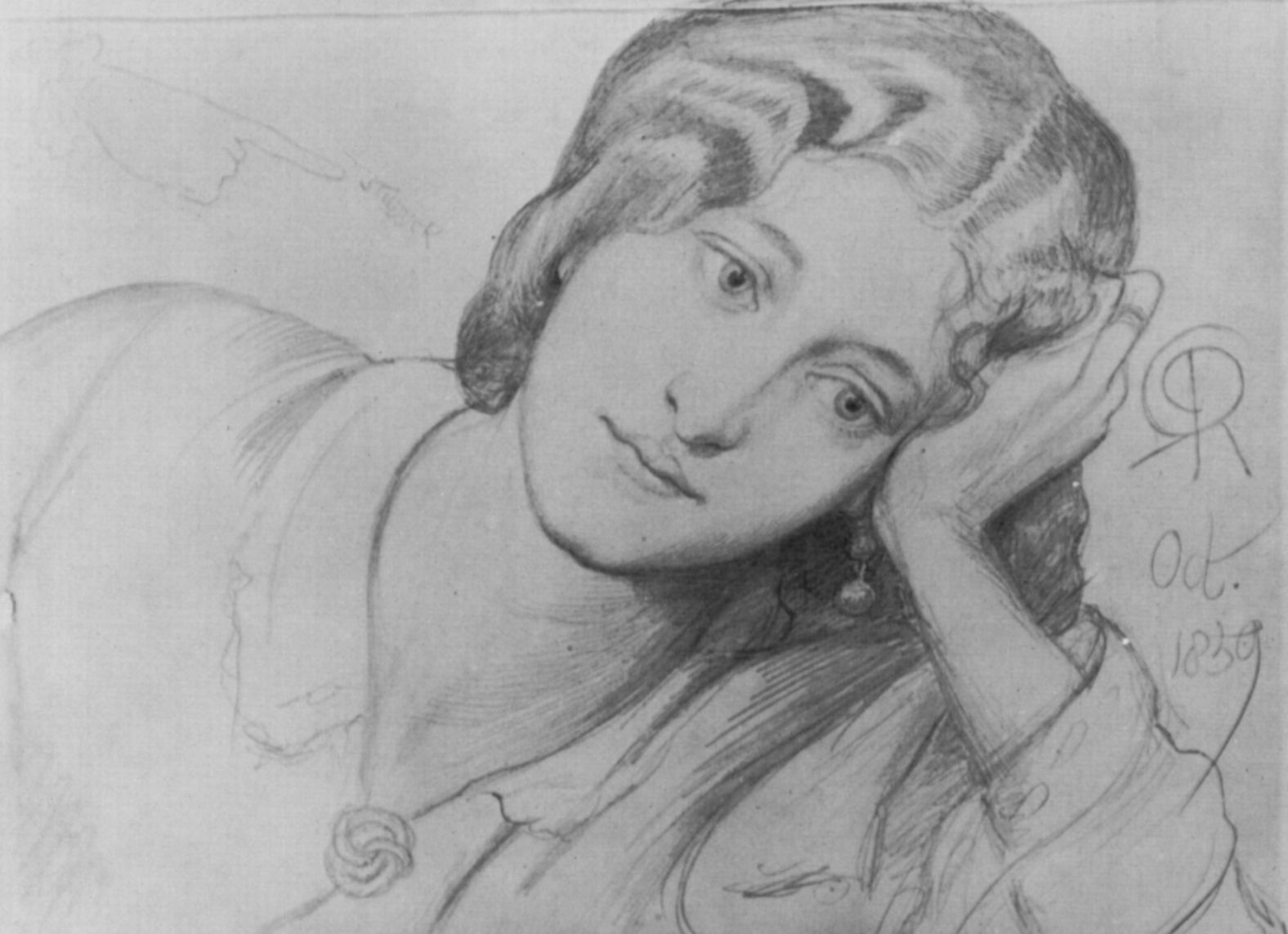 Portrait of Ruth Herbert